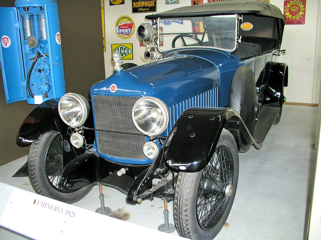 30 HP model powered by a 5355 cc 6-cylinder monobloc engine with sleeve-valves, made in Belgium by Minerva Motors SA; front left-side view